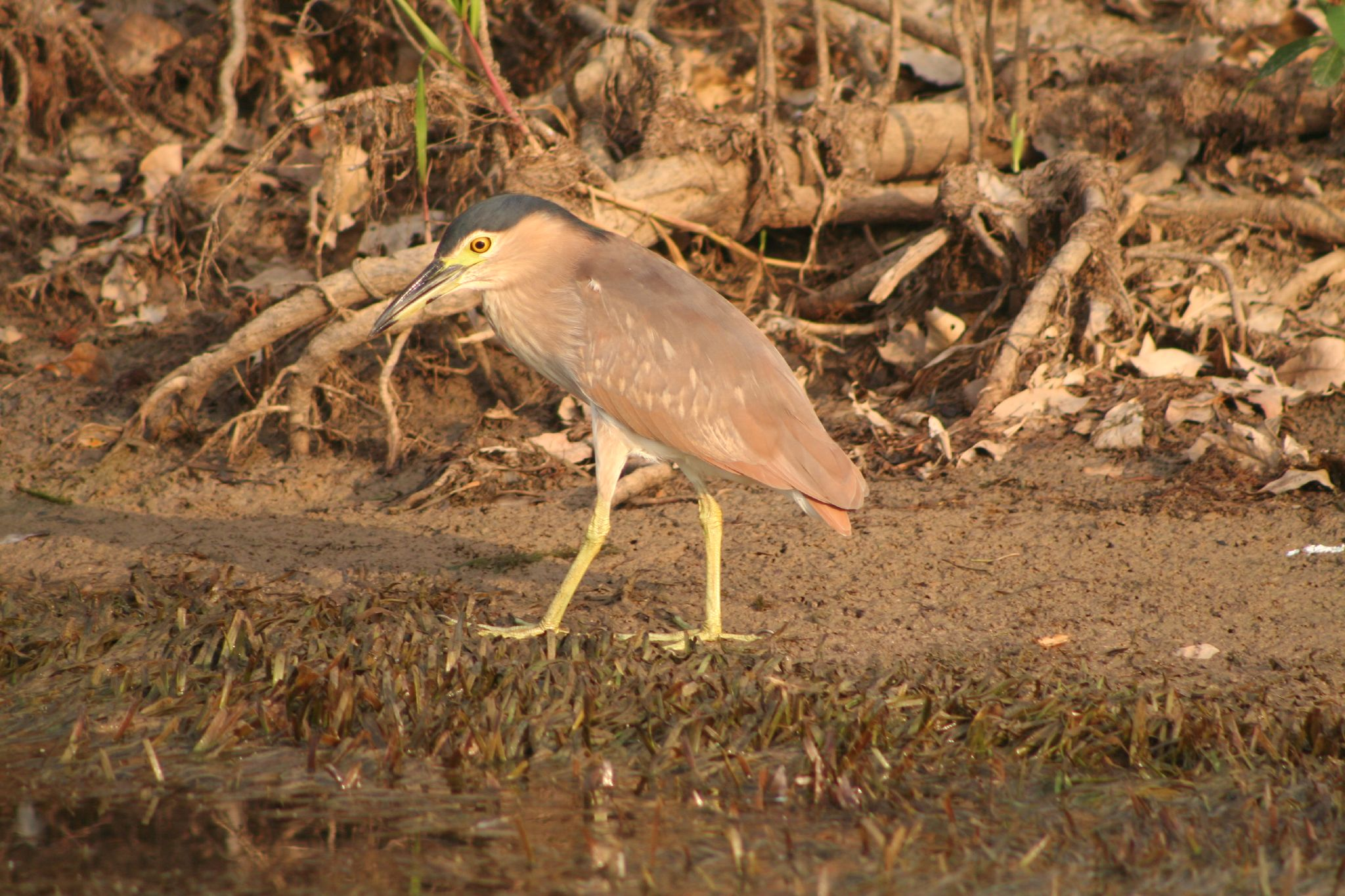 Rufous Night Heron (Nycticorax caledonicus).